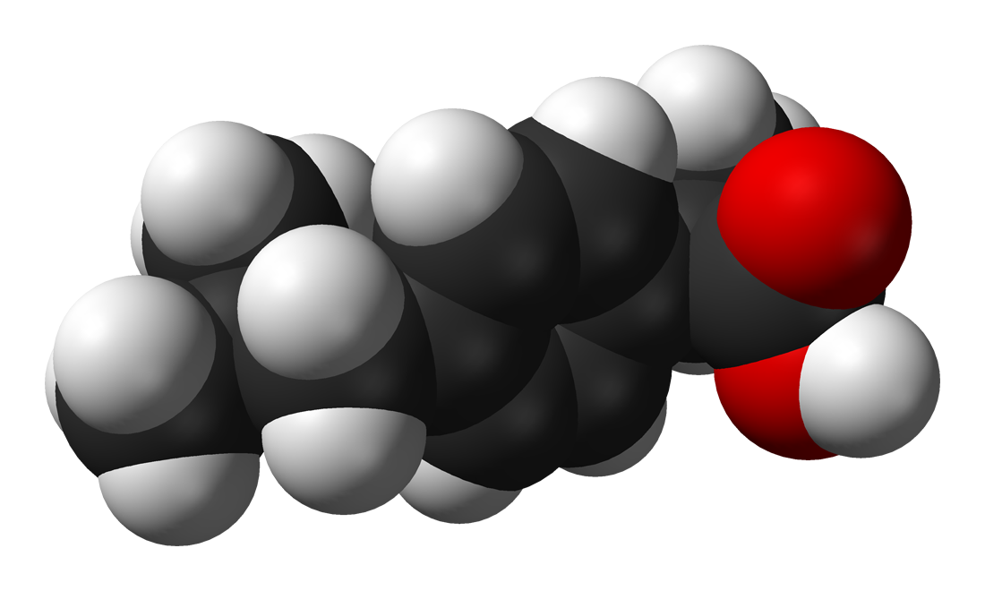 Space-filling model of the ibuprofen molecule, based on neutron diffraction data from N. Shankland, C. C. Wilson, A. J. Florence and P. J. Cox (1997). "Refinement of Ibuprofen at 100K by Single-Crystal Pulsed Neutron Diffraction". Acta Crystallographica Section C 53: 951-954.